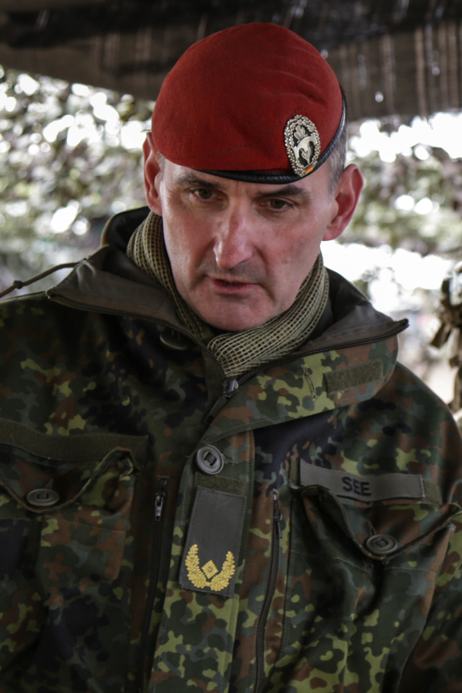 German Army Brig. Gen. Jorg See, Commander of the 12th Panzer Brigade conducts a meet and greet with British soldiers of the 3rd Regiment Royal Horse Artillery during Exercise Dynamic Front 18 at the 7th Army Training Command in Grafenwoehr, Germany, March 7, 2018. Exercise Dynamic Front 18 includes approximately 3,700 participants from 26 nations at the U.S. Army’s Grafenwoehr Training Area (Germany), Feb. 23-March 10, 2018. Dynamic Front is an annual U.S. Army Europe (USAREUR) exercise focused on the interoperability of U.S. Army, joint service and allied nation artillery and fire support in a multinational environment, from theater-level headquarters identifying targets to gun crews pulling lanyards in the field. (U.S. Army photo by Sgt. Alexandra Hulett)